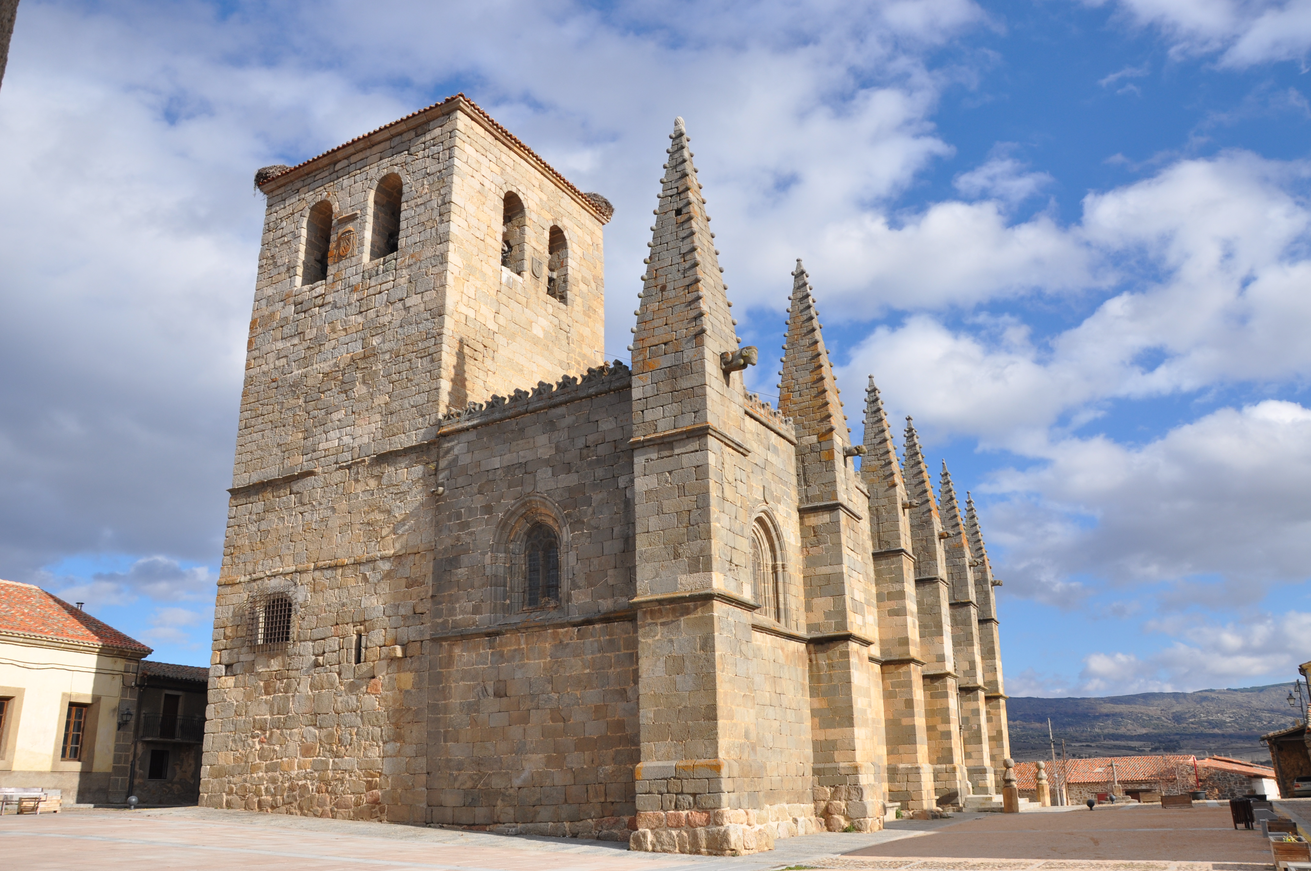 Collegiate church of San Martin de Tours, Bonilla de la Sierra, Avila, Spain.